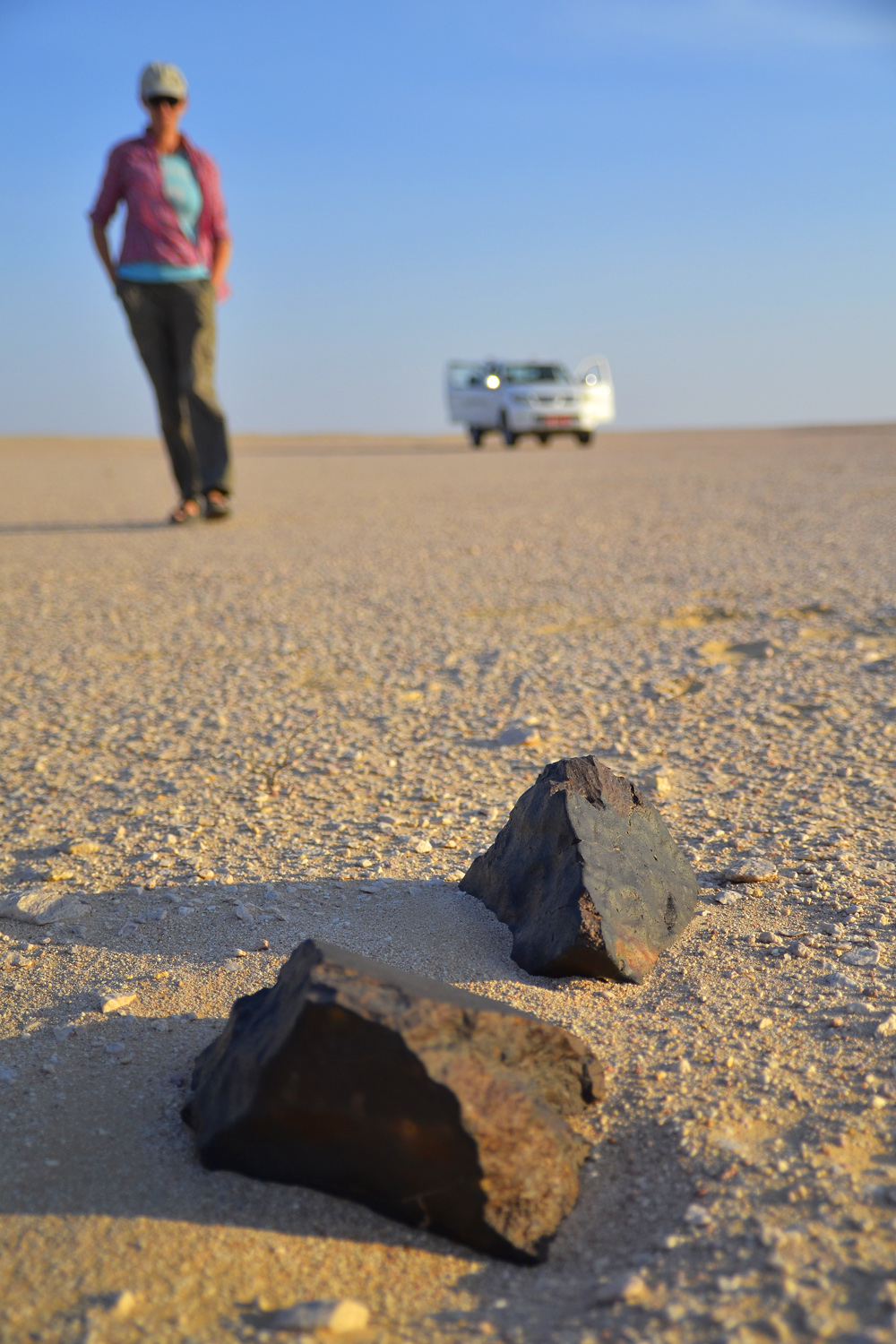 When the Universe lies at your feet. Search for meteorites at the Dhofar Desert, Arabian Peninsula (Oman, Dhofar Desert, November 2012; photo by Marek Woźniak vel Jan Woreczko) Scientific research is not just about the breakthrough moments, the illumination. It is composed mostly of a long-term intellectual and organisational effort. There is the initial hypothesis, the tiresome experiment and the final interpretation. But at times there is also room for a nice moment, when you can go and search for samples yourself. Science should be, above all, an adventure!